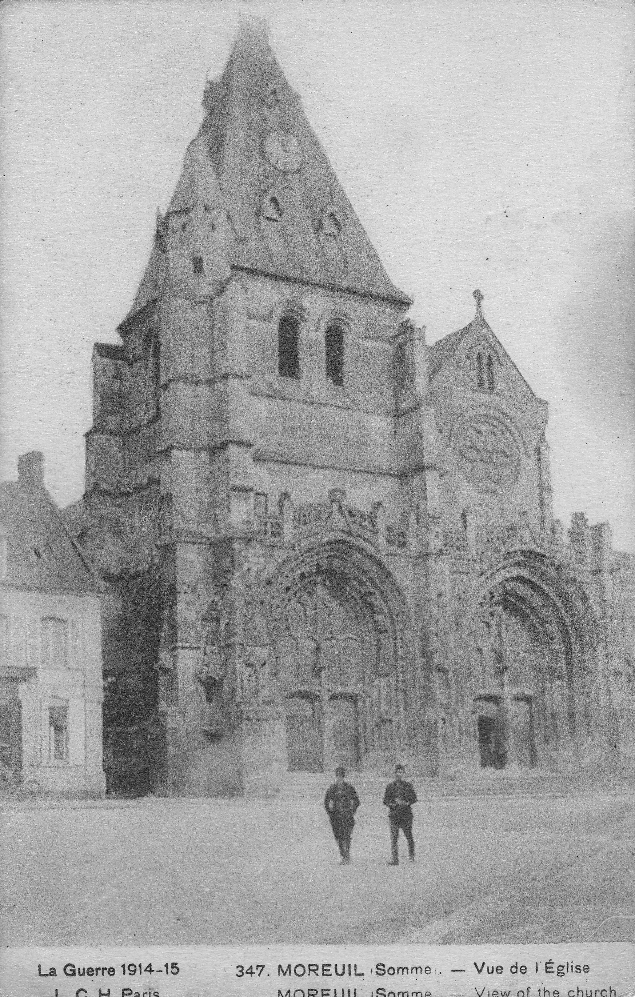 The church in Moreuil, France, seen on a 1915 postcard. The church was largely destroyed in the First World War and has since been rebuilt